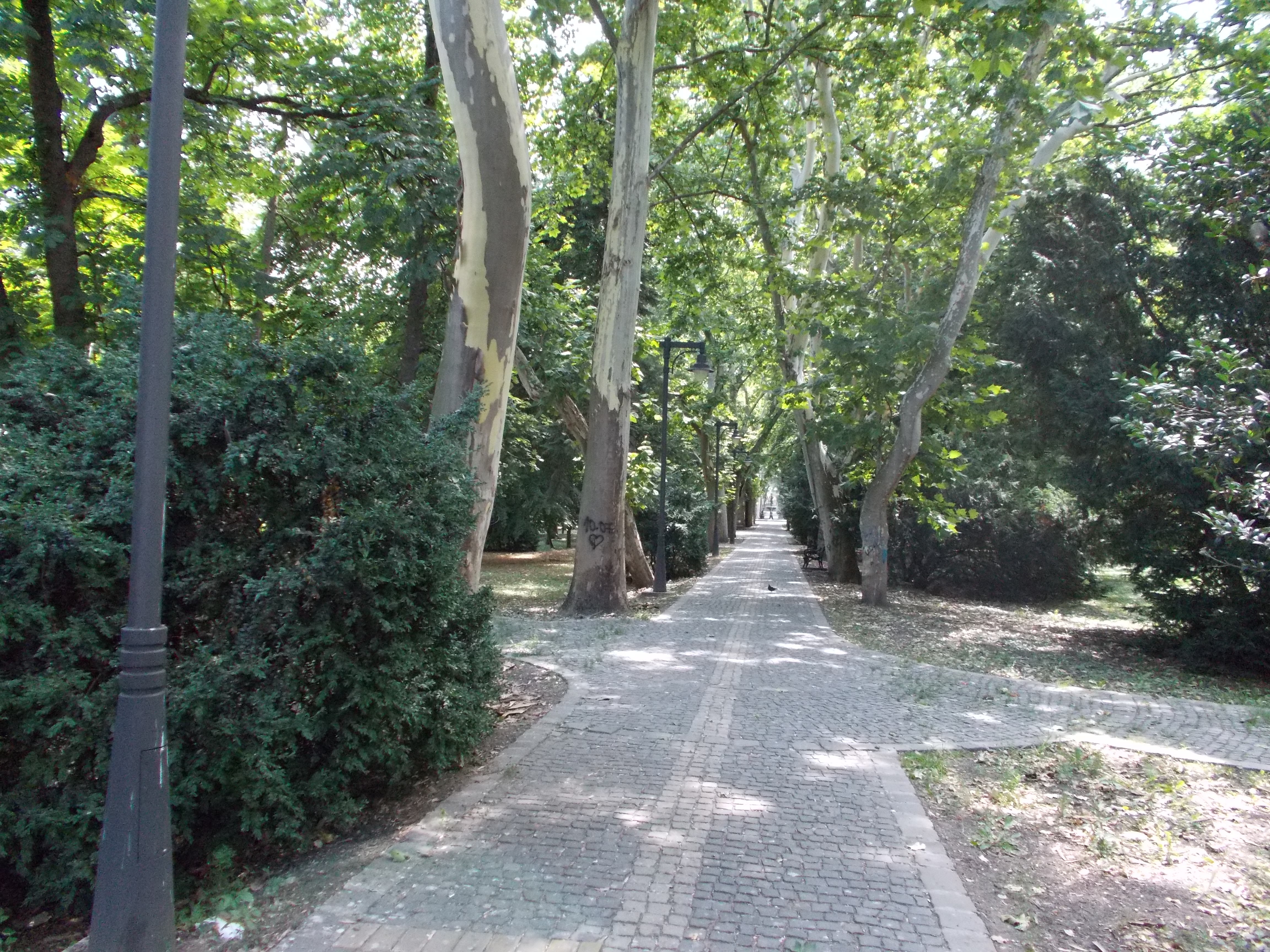 City park in Vrshac.